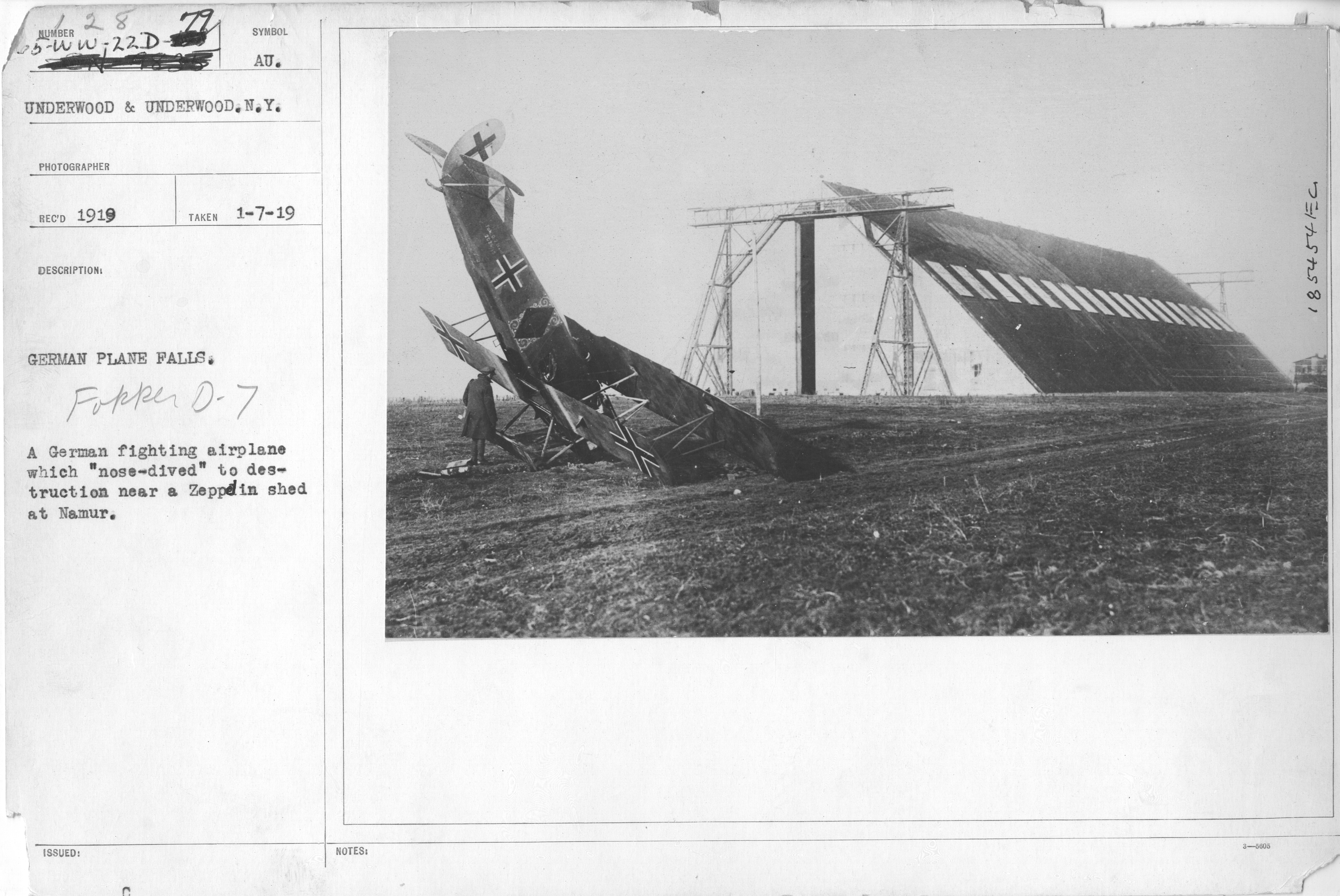 Scope and content: Date Taken: 1/7/1919 General notes: according to Aerodome Forum this was Fokker DVII (OAW) 2024/18 crashed about 1918.[1] {Underwood & Underwood Picture received by US War Department January 7,1919}